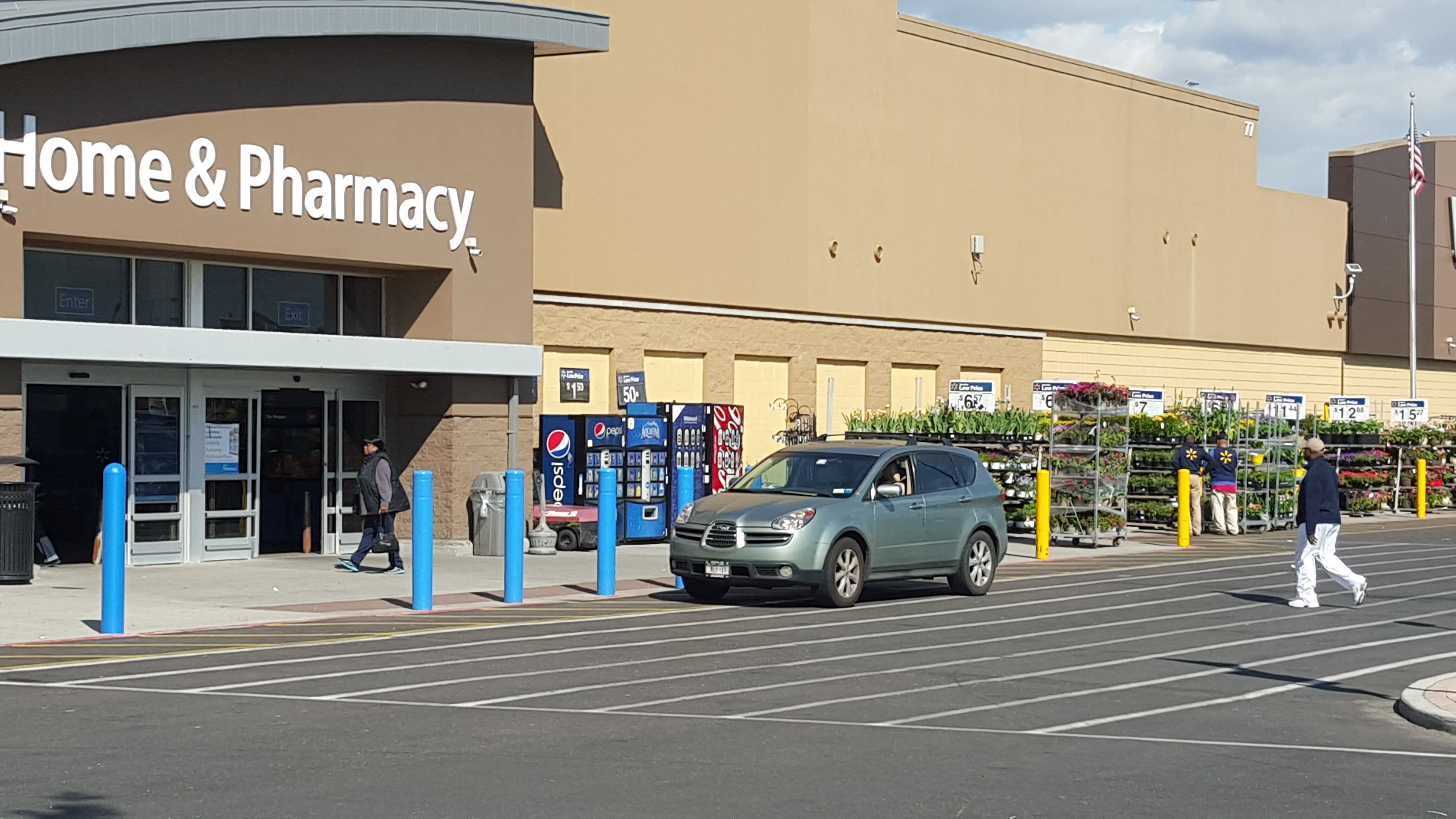 The Green Acres Mall in Valley Stream, NY is a 20,000sf mall. Together with the Green Acres Commons, a 366,000sf complex it ranks 13th in largest mall sizes in the US.